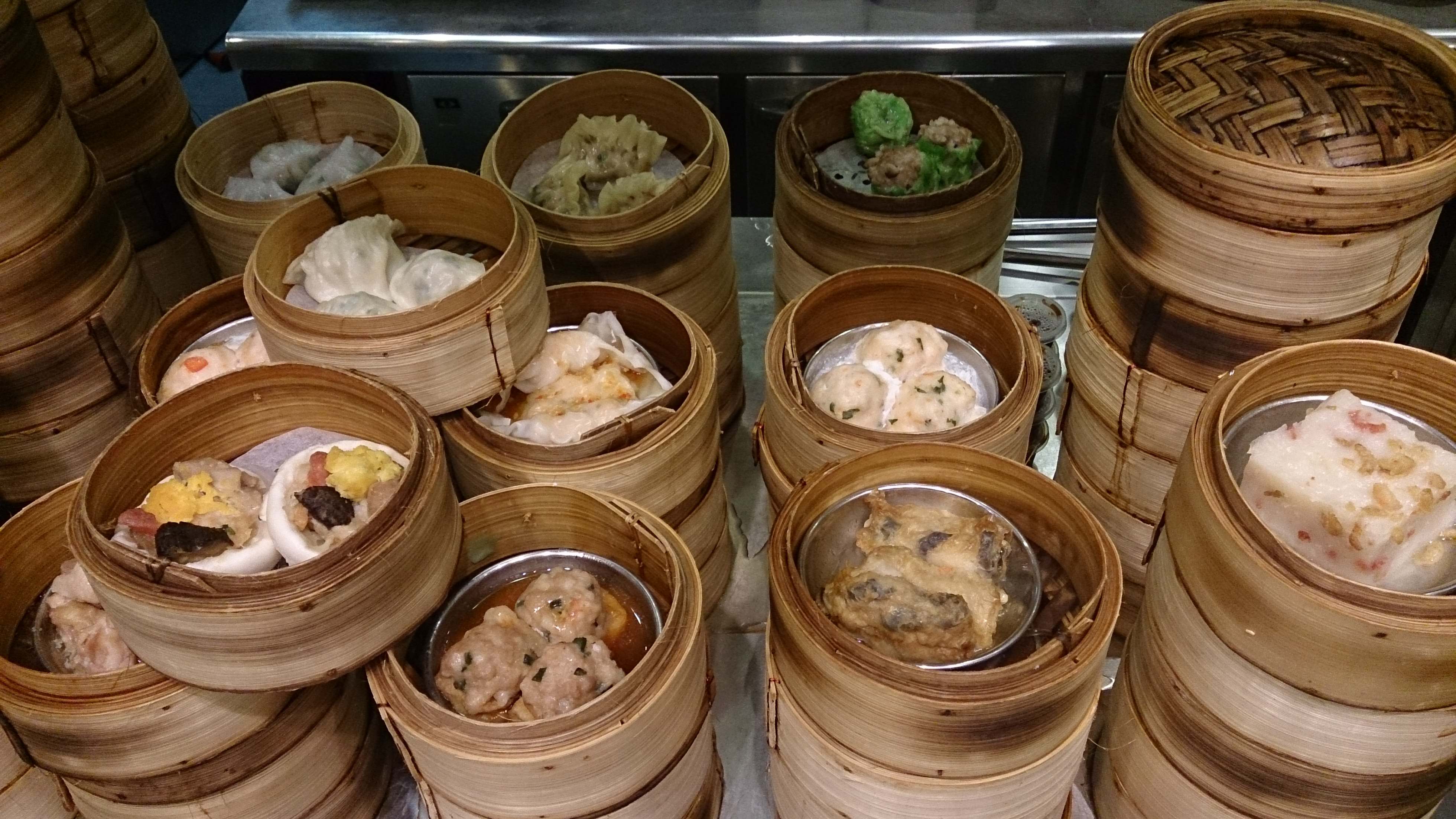 sold at a food court in Singapore